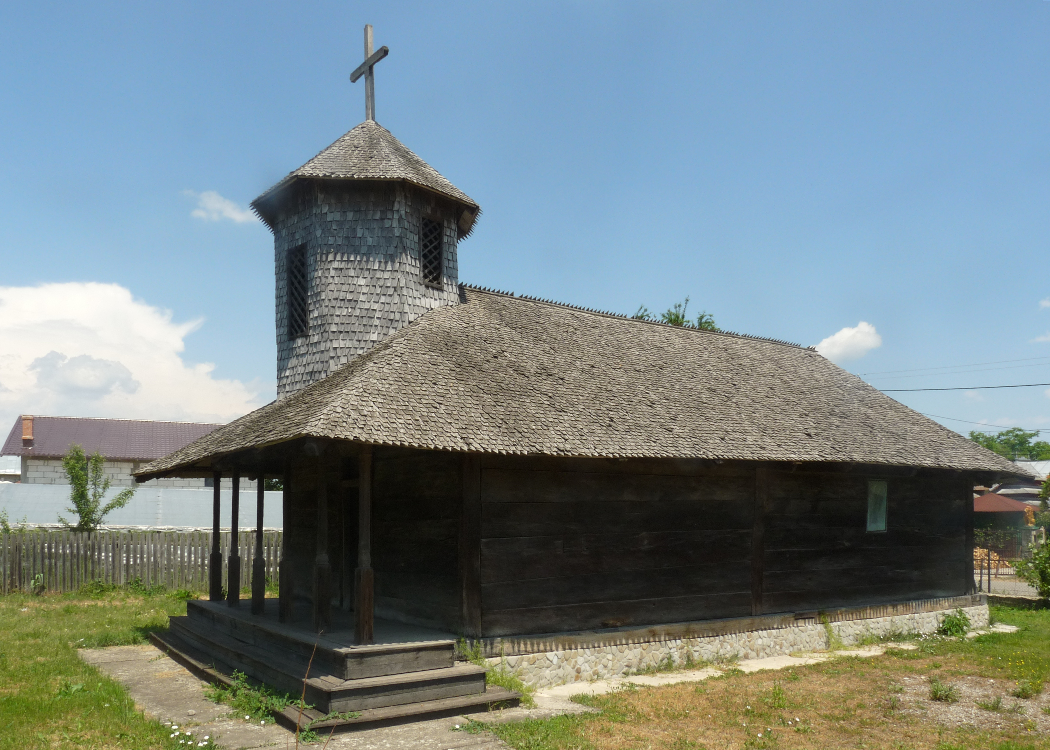 The Three Hierarchs' wooden church in Balta Doamnei, Prahova County, RomaniaRomână: Biserica de lemn „Sfinții Trei Ierarhi” din Balta Doamnei, județul Prahova, România